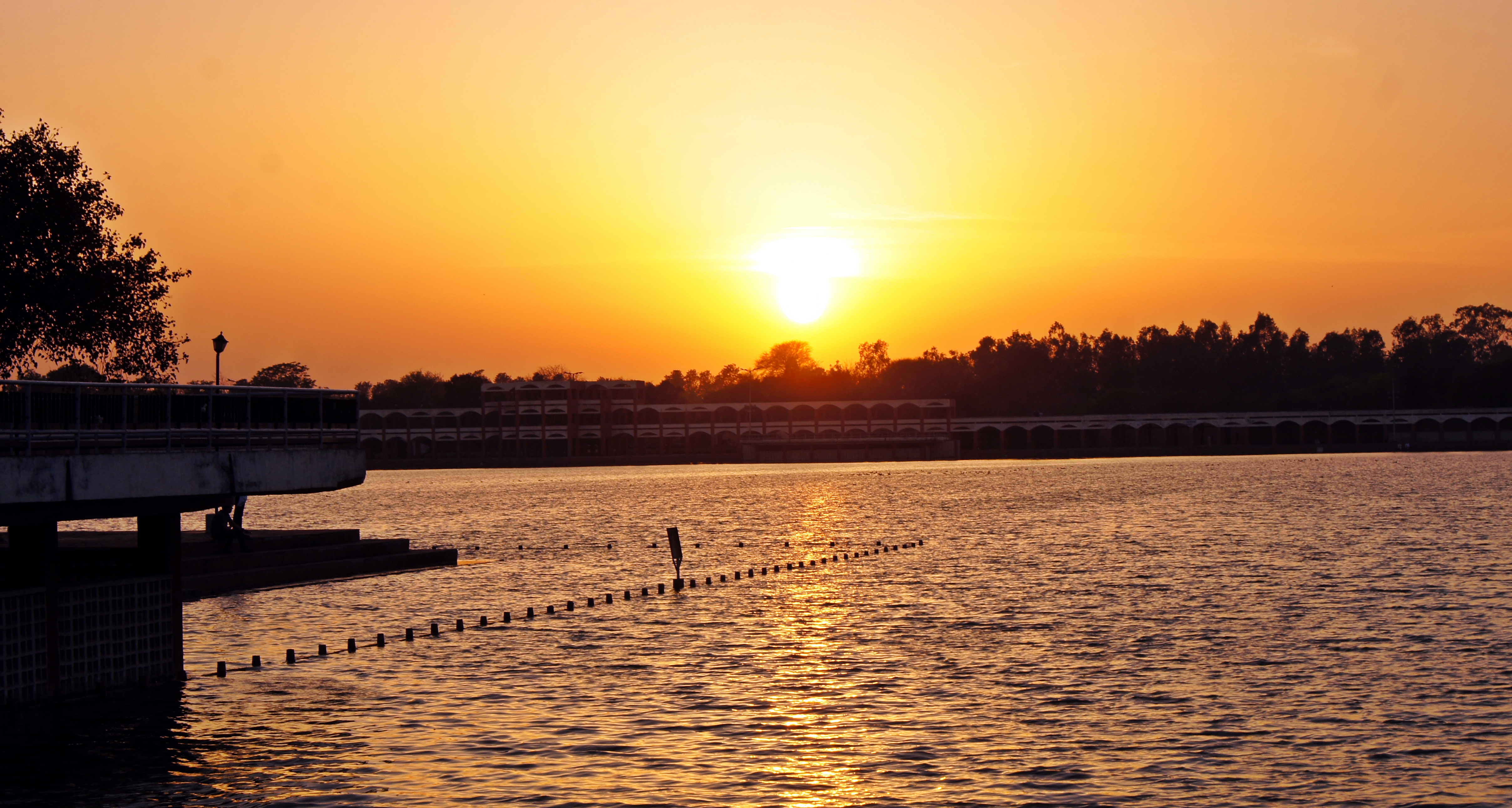 Brahma Sarovar Park